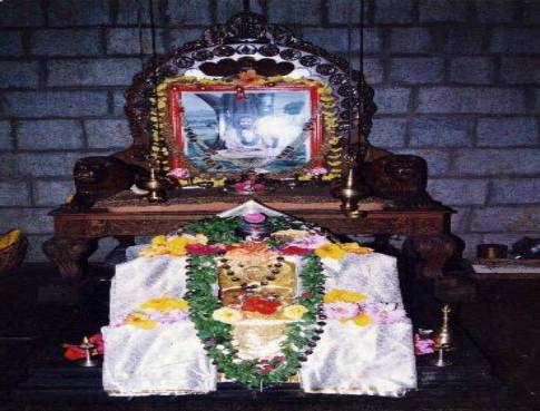 shridhar swami